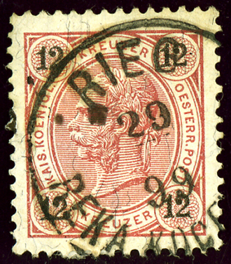 12 kr bi-lingually cancelled at Rieg (Reka Kočevska) in 1899, Slovenia